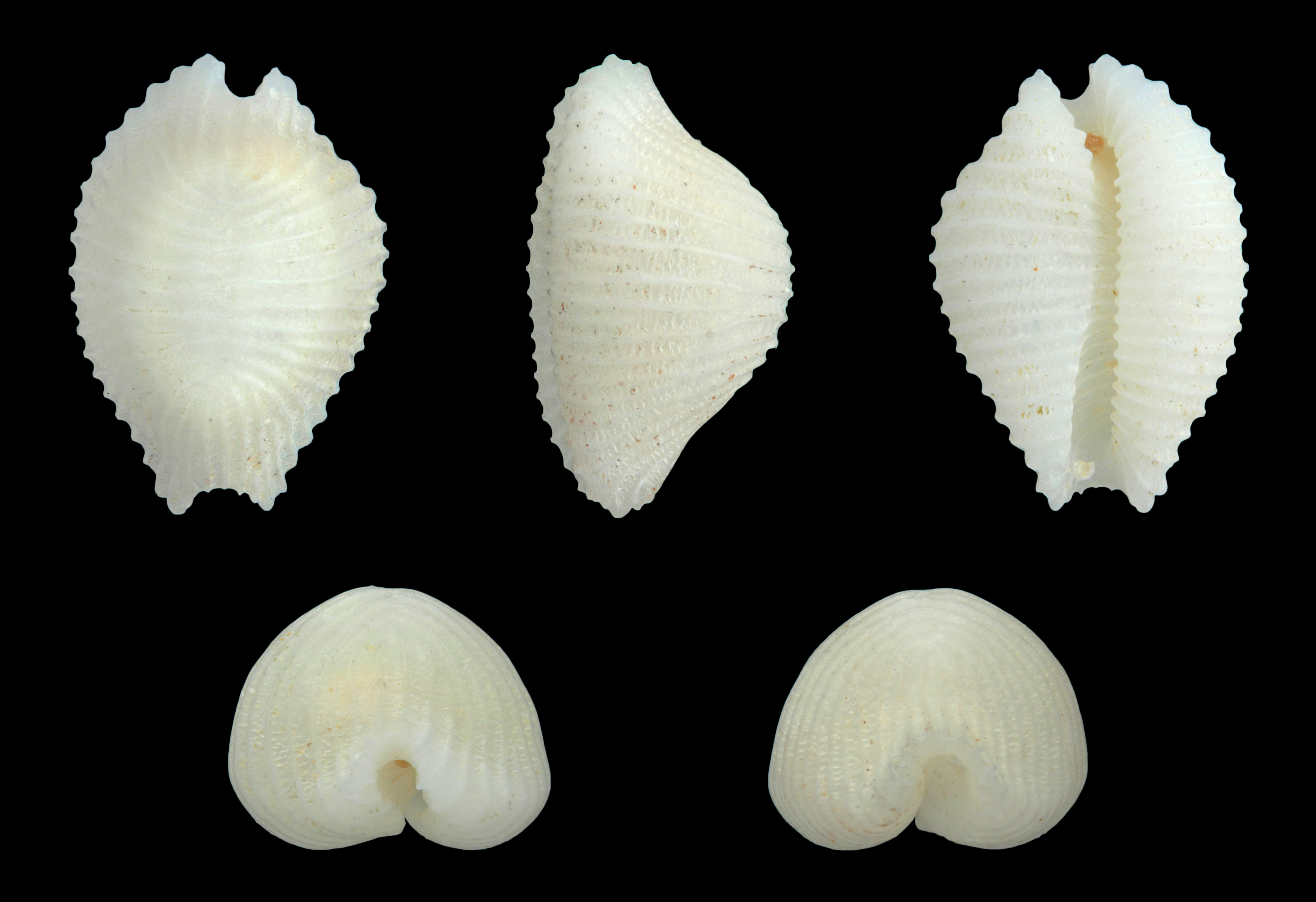 Length 0.8 cm; Originating from Balicasag Island, Philippines; Shell of own collection, therefore not geocoded. Dorsal, lateral (right side), ventral, back, and front view.